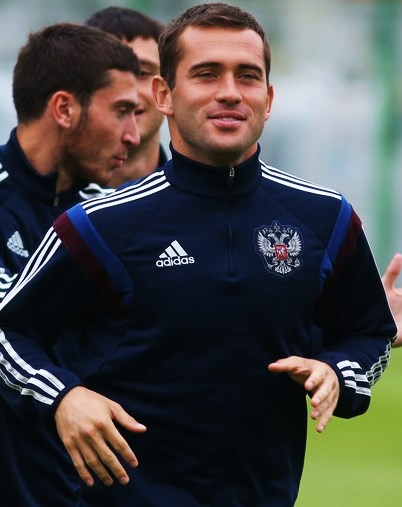 Aleksandr Kerzhakov